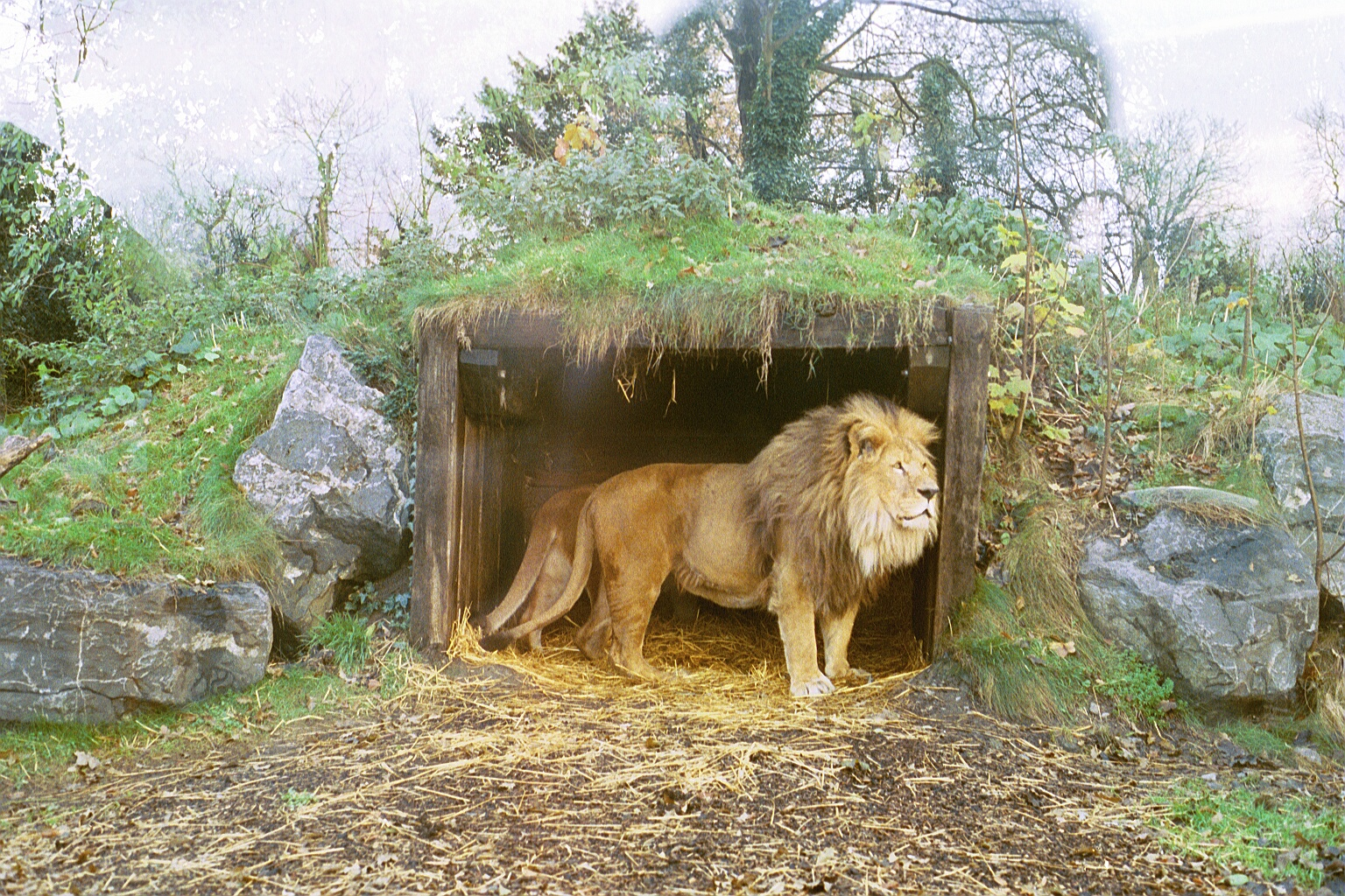 Lion, Dublin Zoo